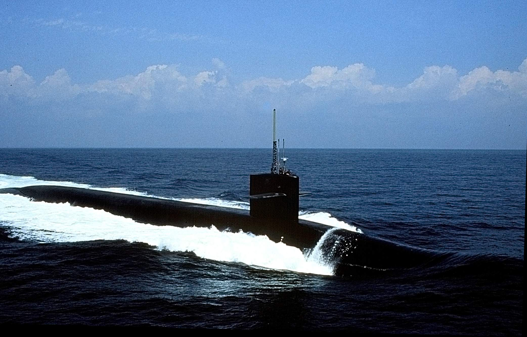 United States Navy ballistic missile submarine